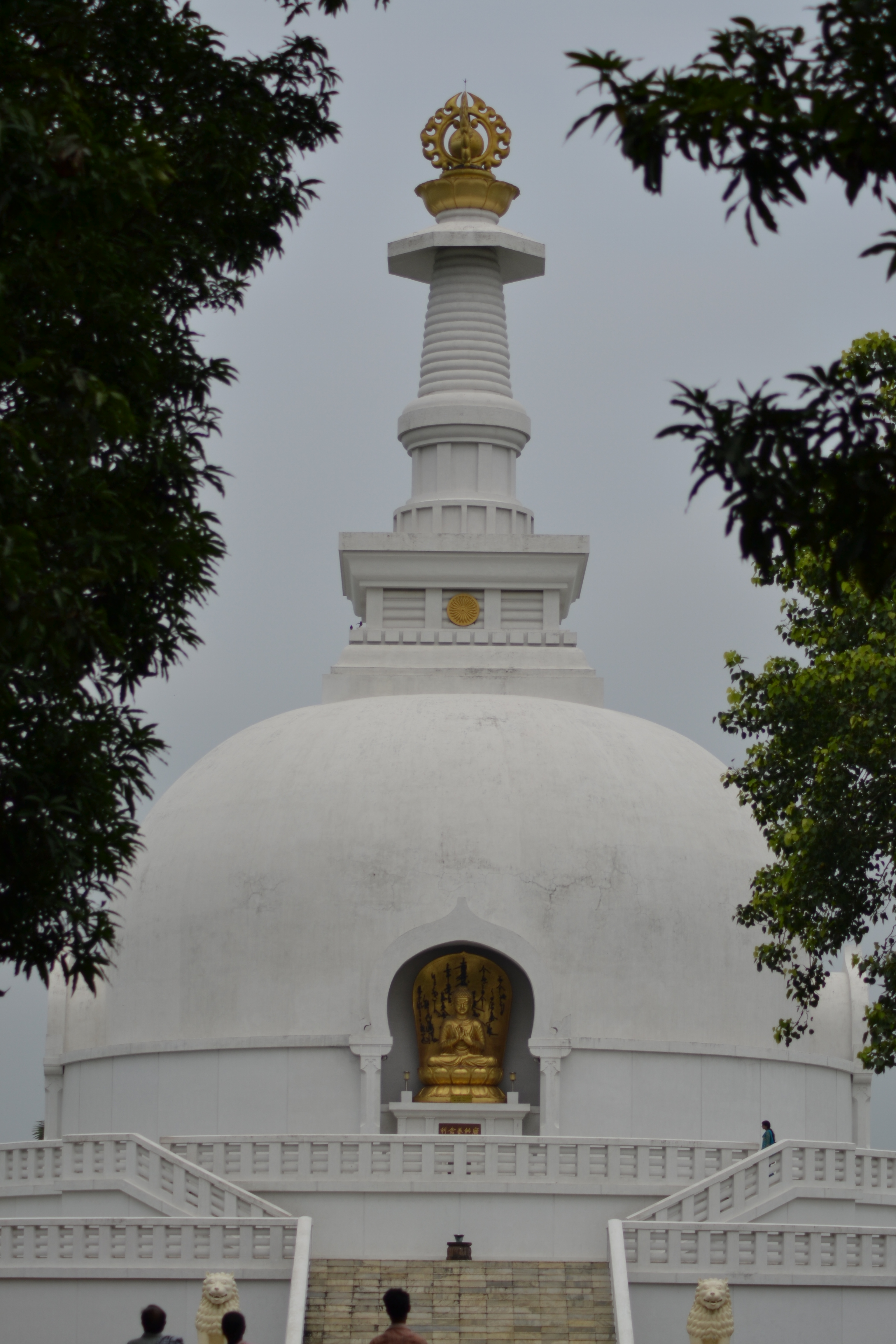 its viswa santi stupa